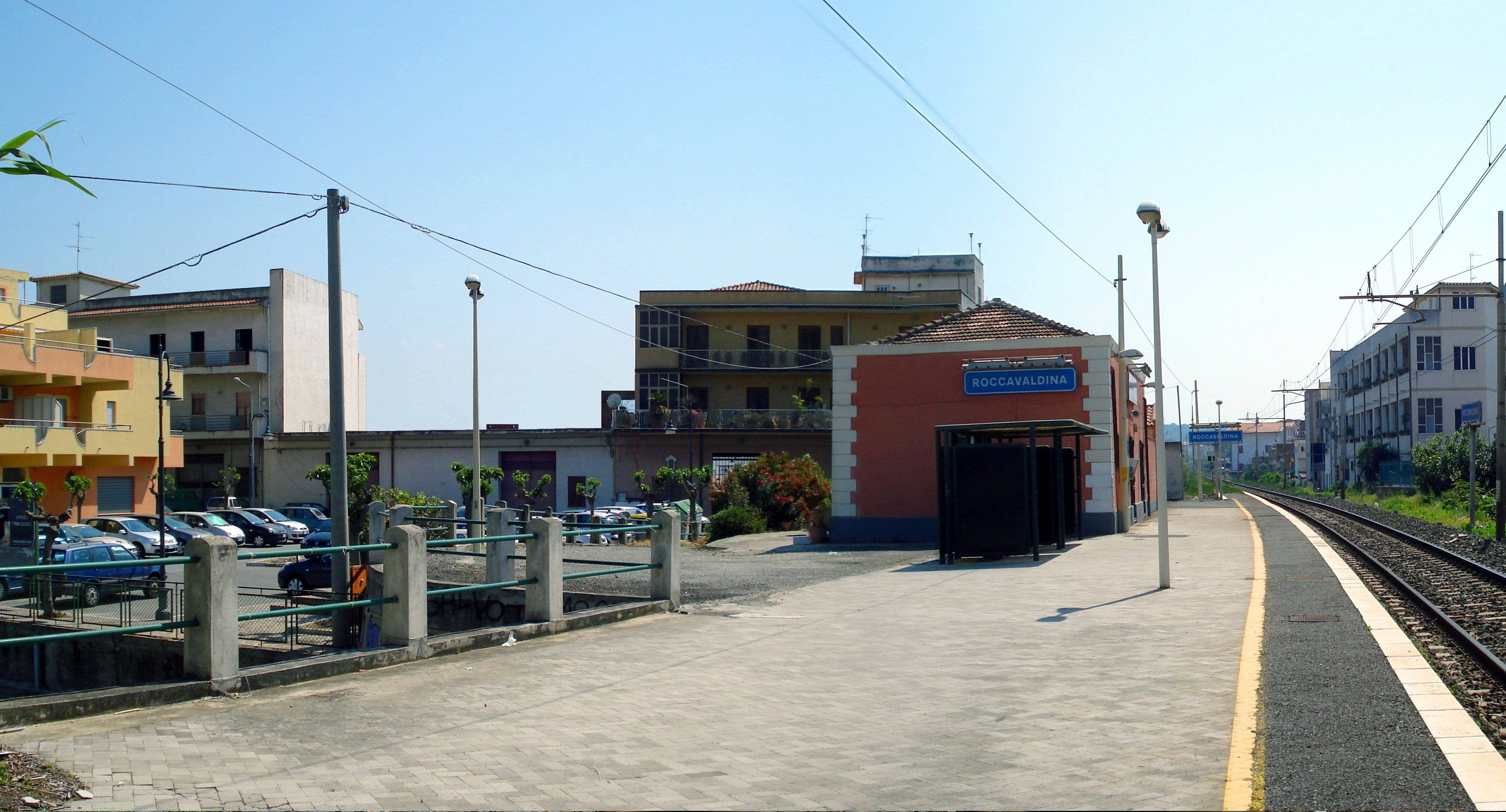 Roccavaldina-Scala-Torregrotta old train station: view of the passenger building and the square outside.